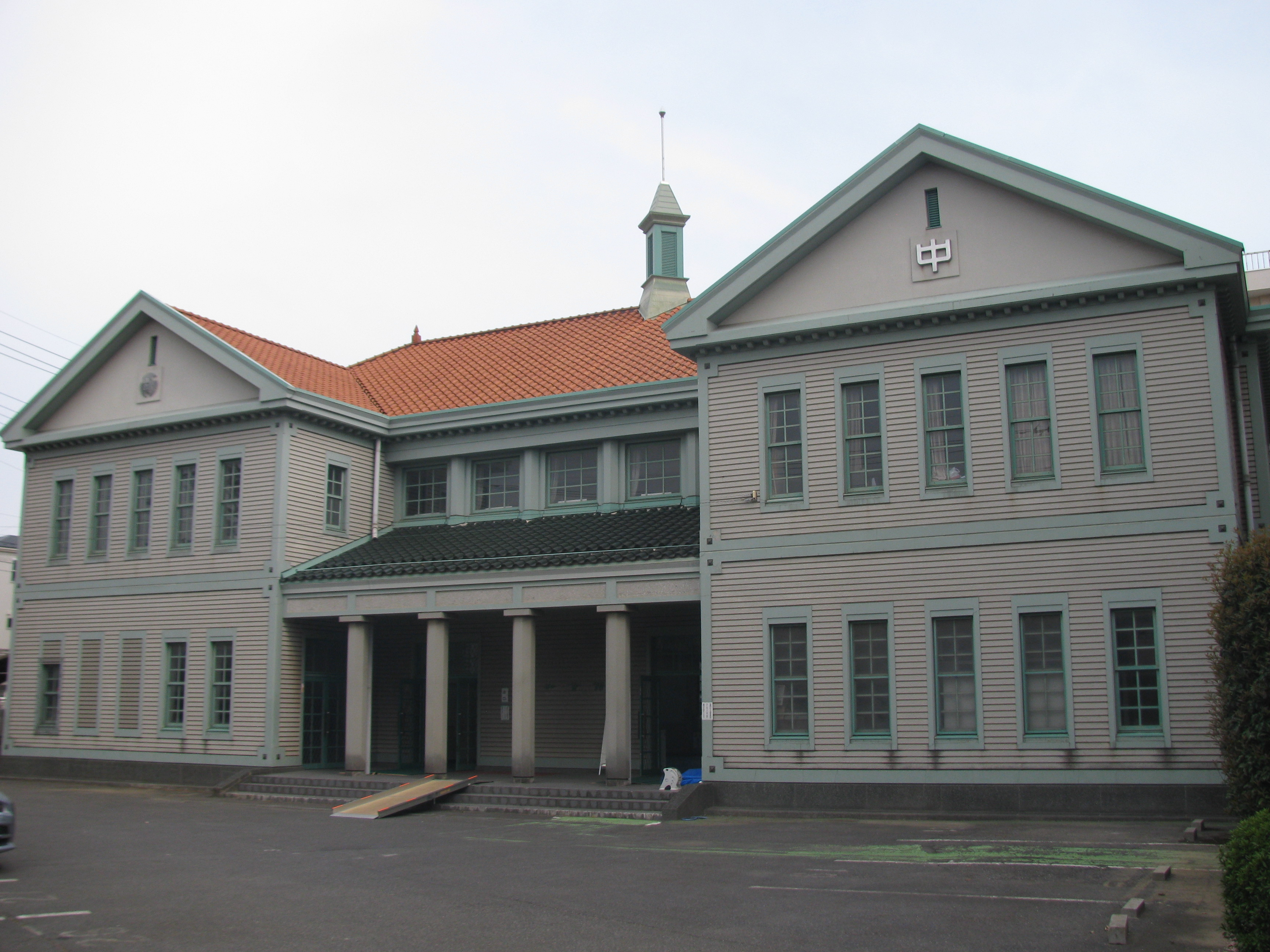 Reiwa Hall, the reunion hall of Saitama Prefectural Urawa High School